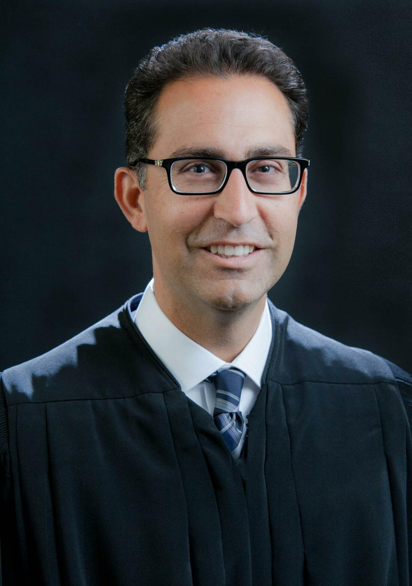 Judge Vince Girdhari Chhabria